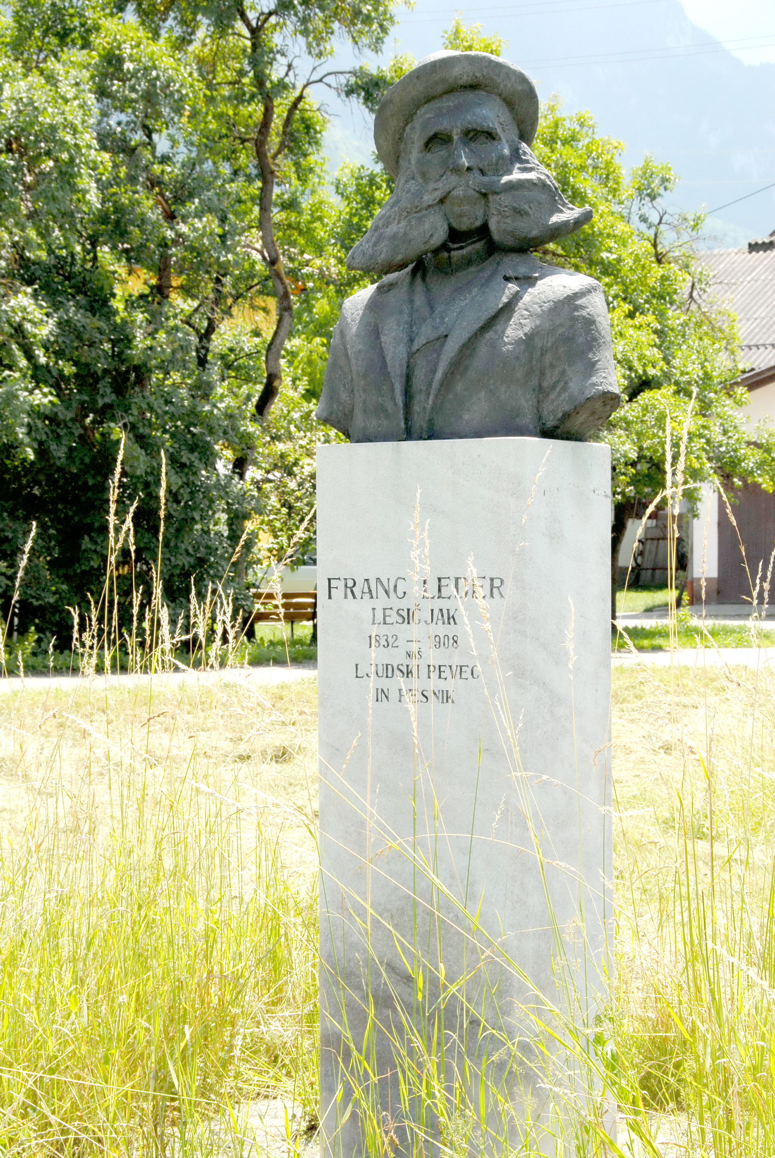 Memorial bust of Franc Leder, popular poet, at the village Globasnitz, district Voelkermarkt, Carinthia, Austria